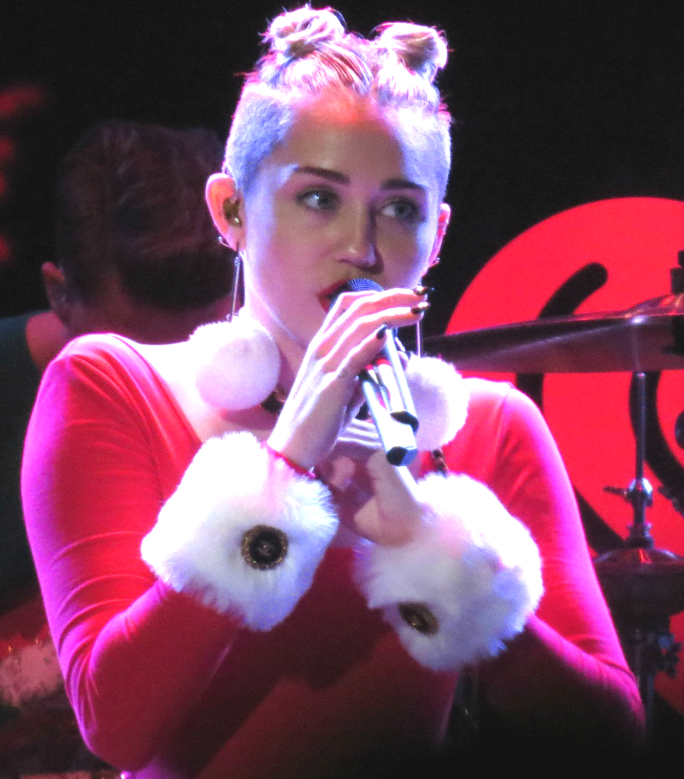 Miley Cyrus singing at the 93.3 FLZ Jingle Ball in Tampa Florida